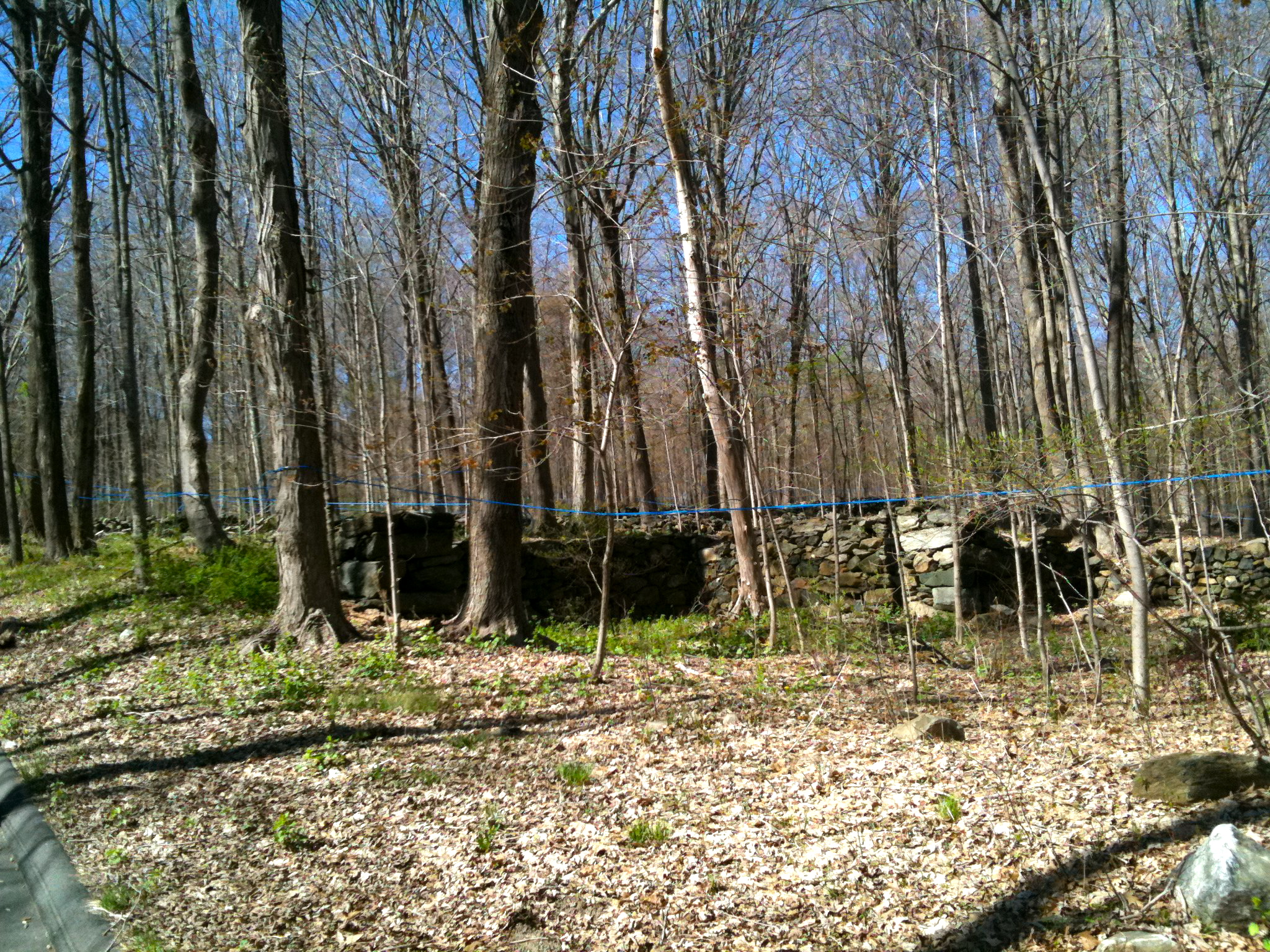 Lillinonah Trail. Blue-Blazed CFPA foot path which circles the upper Paugussett State Forest (and Lake Lillinonah/Housatonic River) in Newtown, CT. Sugarbush - maple sugaring. With old stone foundation in background. On Alberts Hill Road. Lillinonah Trail. Blue-Blazed CFPA foot path which circles the upper Paugussett State Forest (and Lake Lillinonah/Housatonic River) in Newtown, CT.